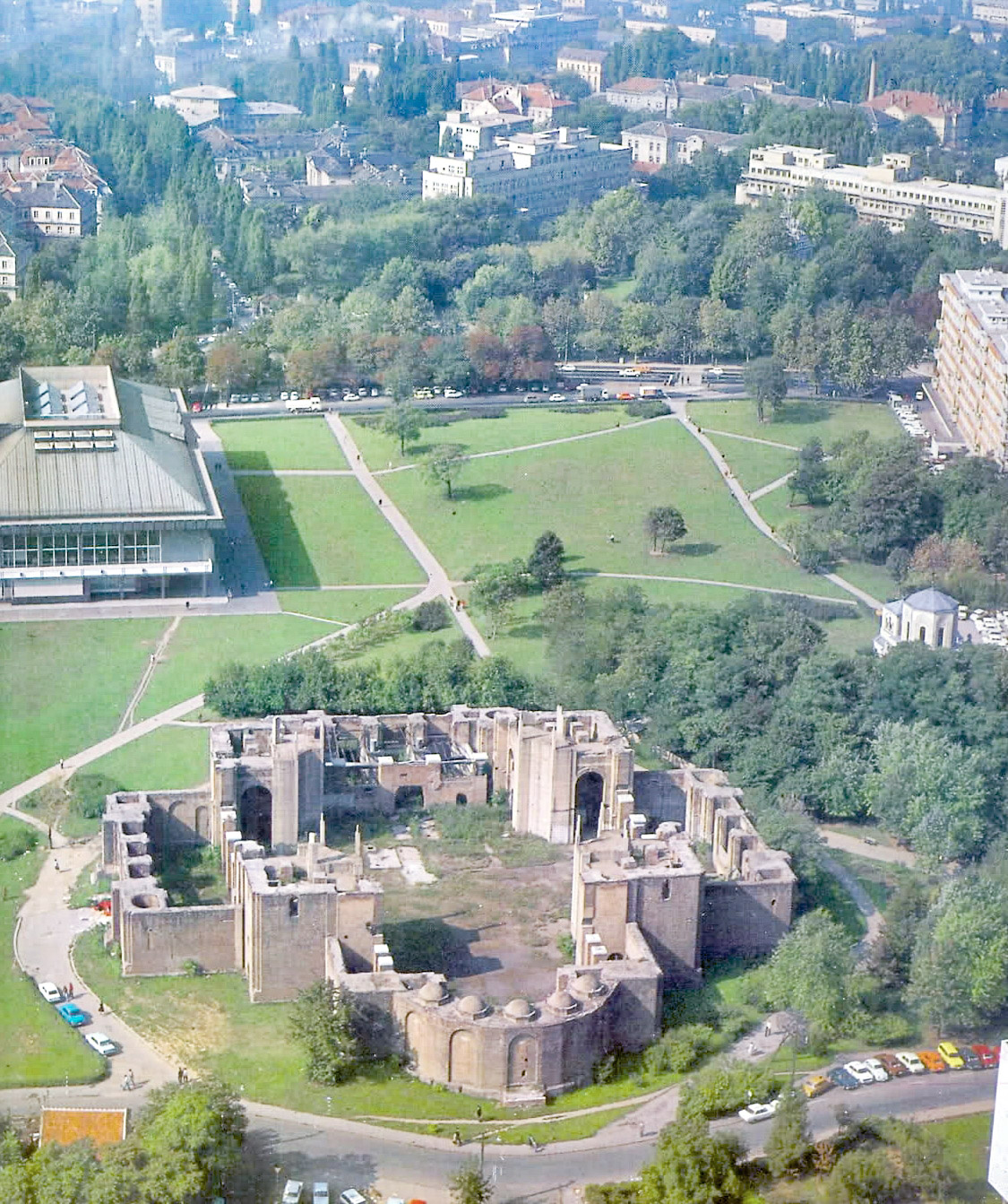 Zidovi hrama